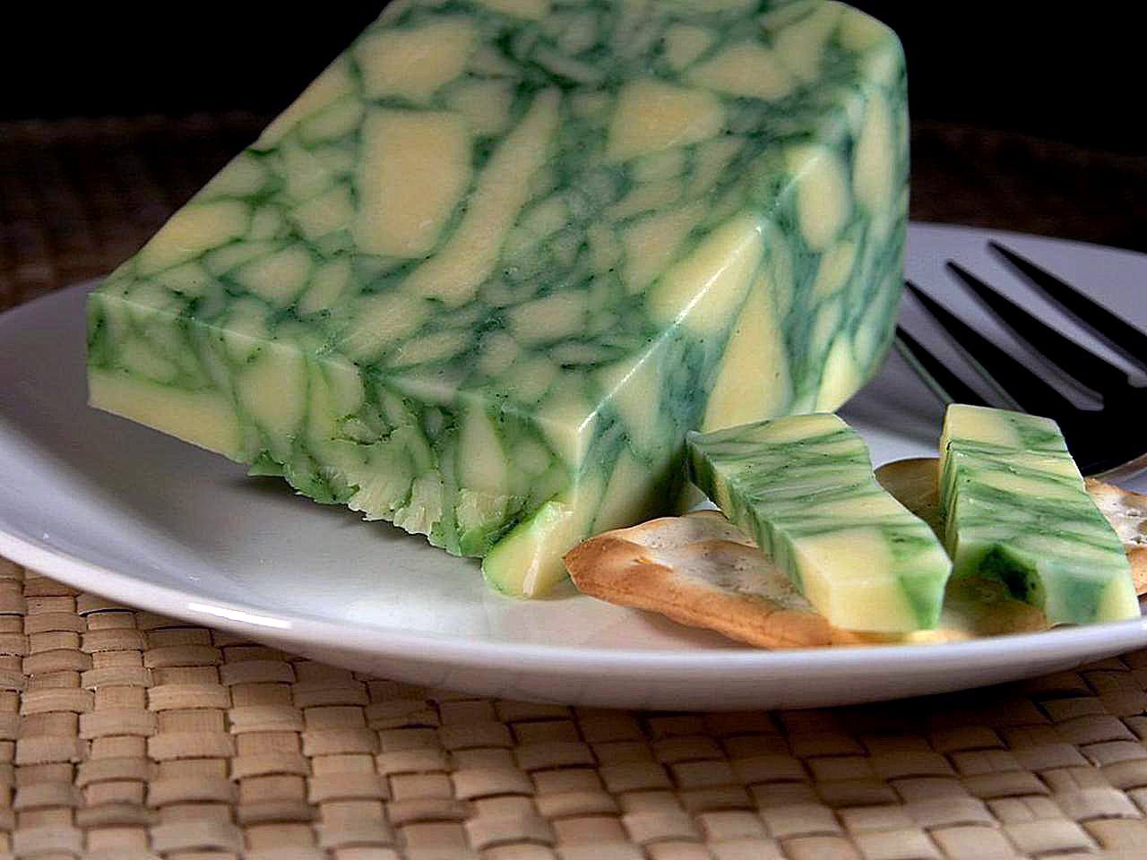 Image title: Sage derby cheese Image from Public domain images website